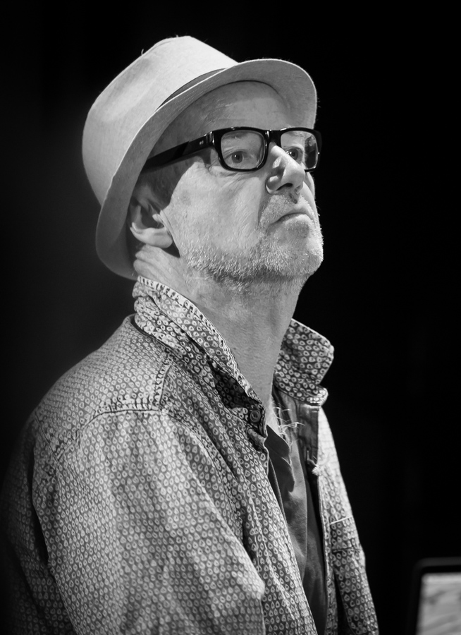 Jon Balke performs with Ellen Andrea Wang at the stage of Sentralen. The concert was part of the Oslo Jazz Festival in Norway and took place on 18. August 2016. Lineup: Ellen Andrea Wang (double bass) Jon Balke (piano) Hanna Paulsberg (saxophone) Andreas Ulvo (keyboard) Erland Dahlen (drums)